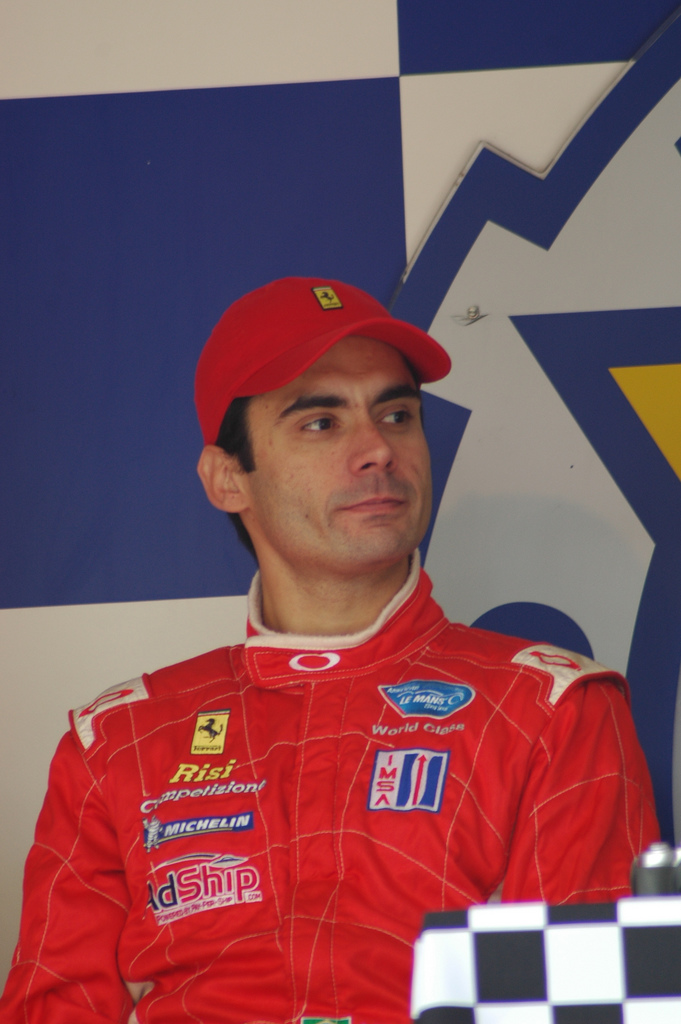 Jaime Melo at the 2009 24 Hours of Le Mans.